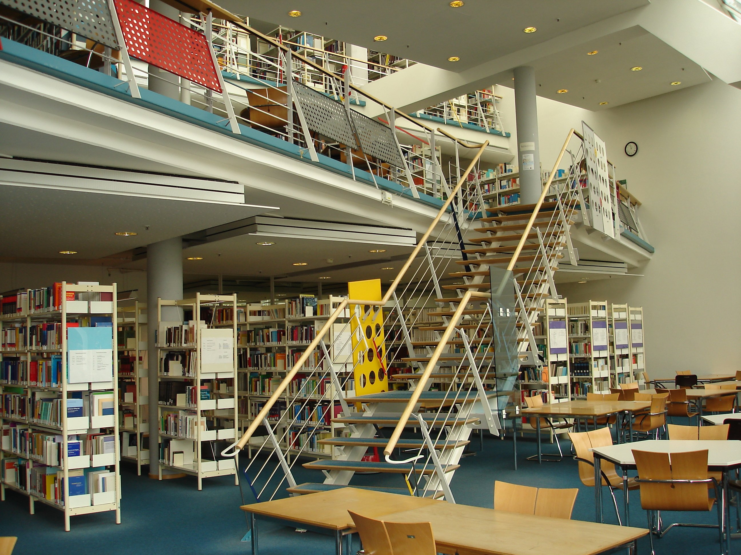 University Of Applied Sciences in Munich, Library